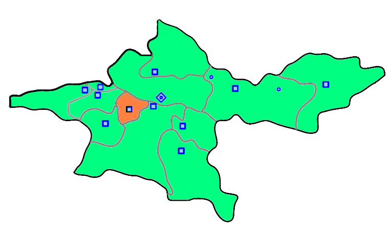 Eslamshahr county of the Tehran Province in Iran. Taken from: and edited by Mani Parsa.